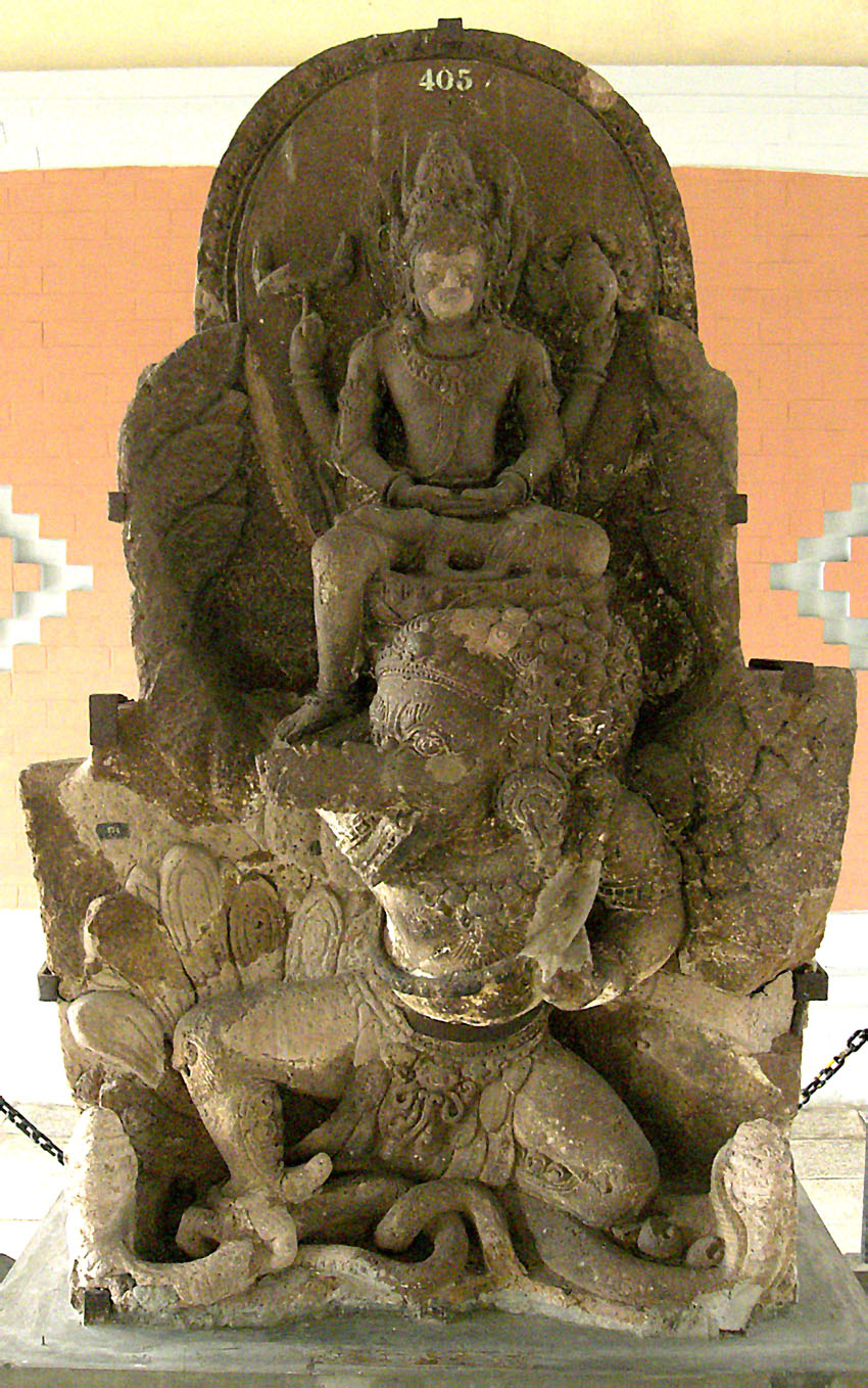 Deified statue of King Airlangga depicted as Vishnu mounting Garuda, found in 11th century CE Belahan Temple, East Java, Indonesia